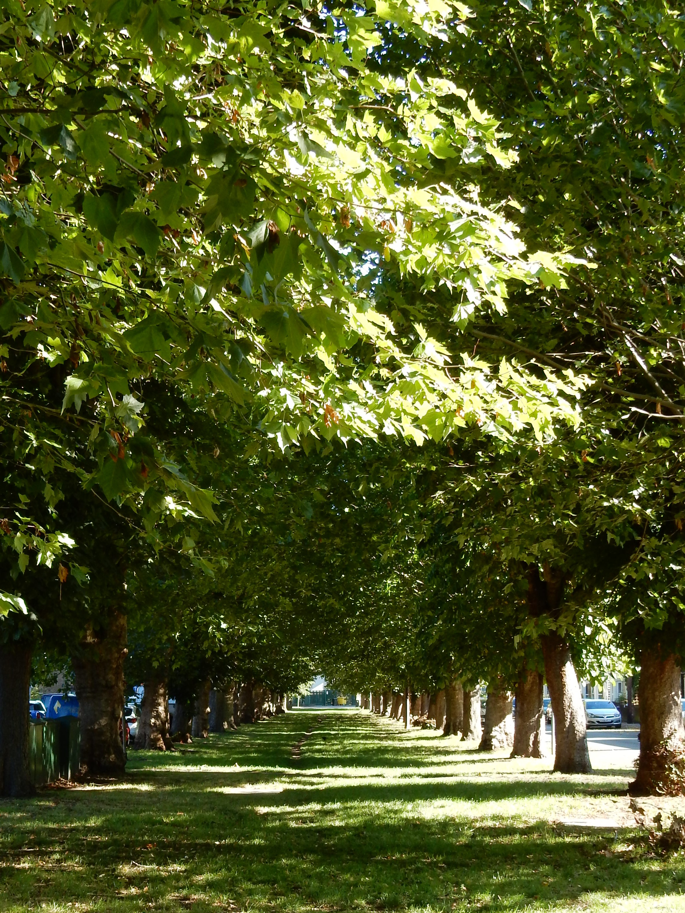 Trees line Colham Avenue, formally part of the southern section of the Otter Dock arm of the Grand Union Canal in Yiewsley.